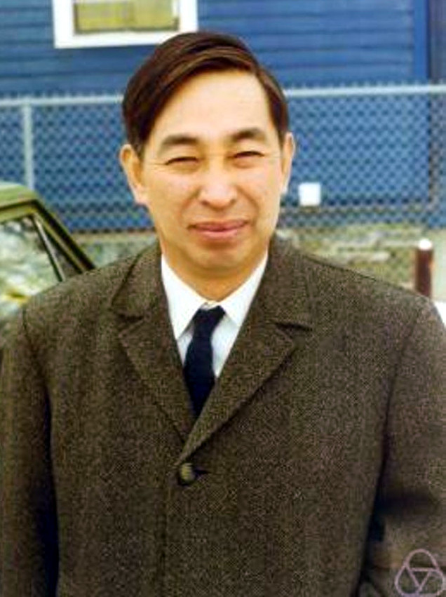 Kyosi Ito, Japanese mathematician, at Cornell University